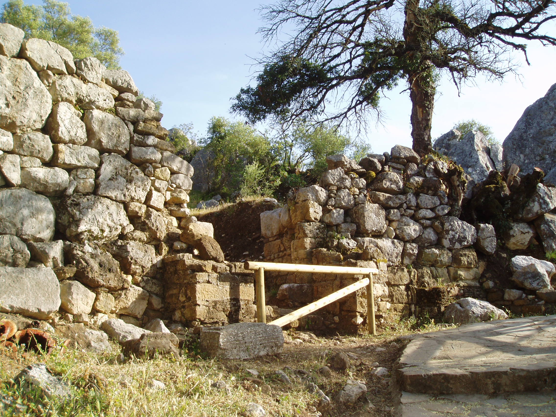 Ocuri, roman ruins in Ubrique, Spain.